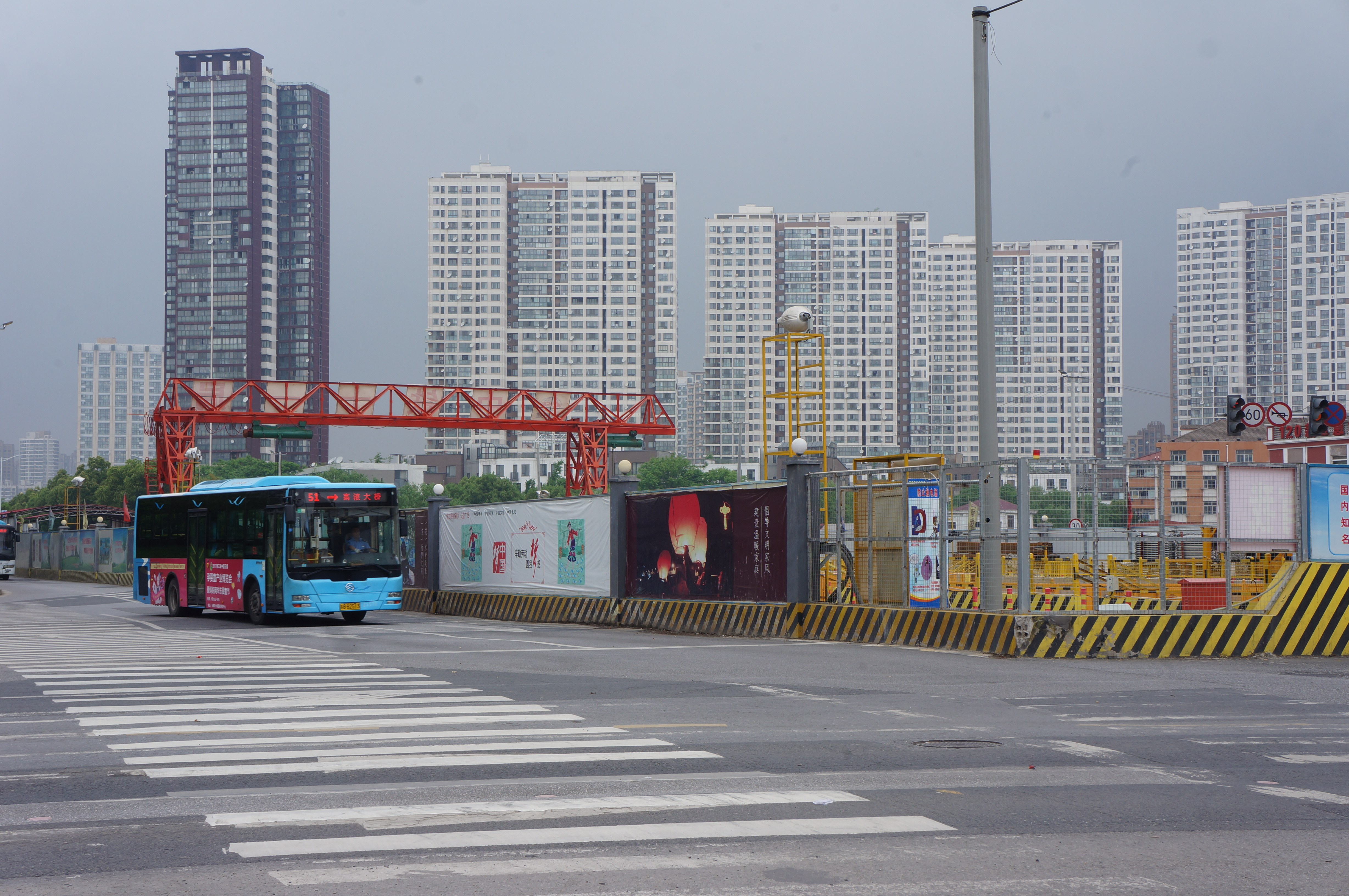 201705 WXM L3 New District Hospital Station （新区医院站） under construction